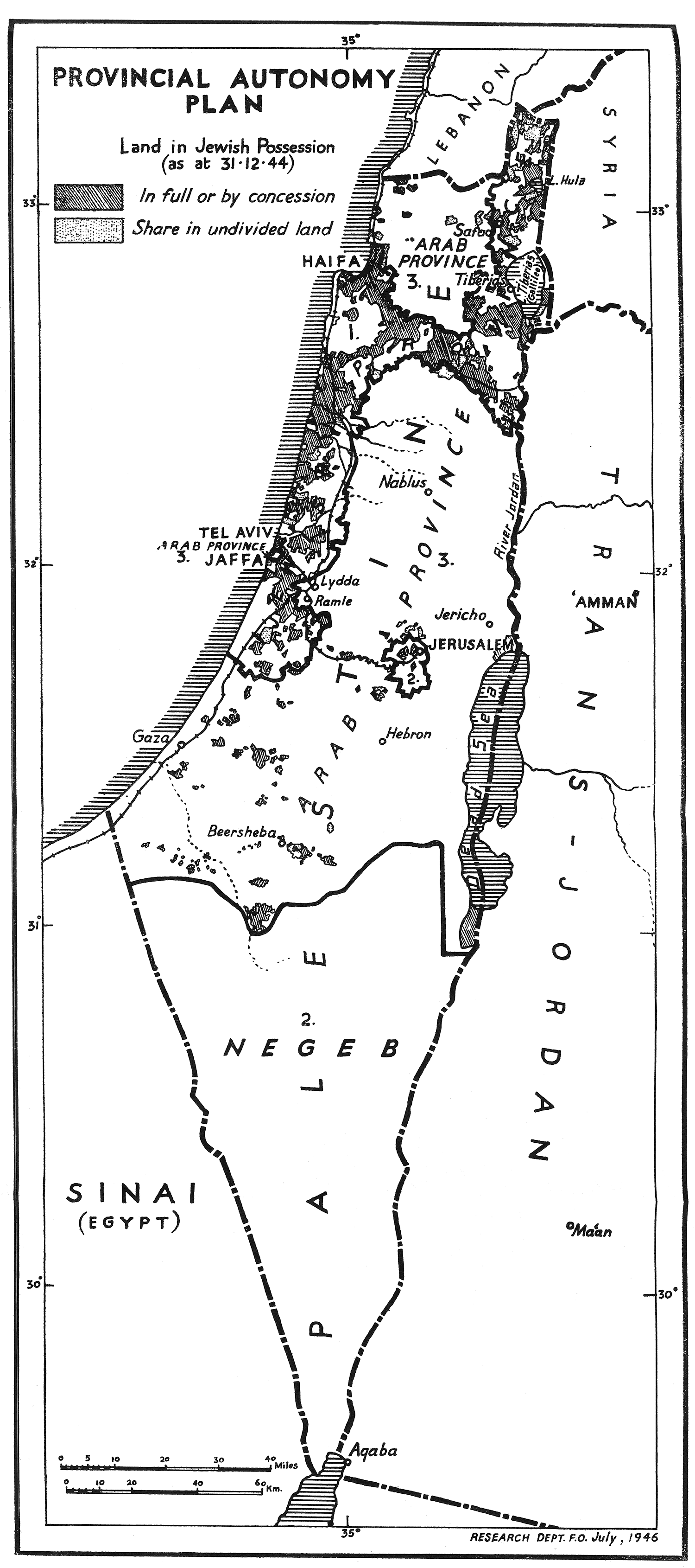 Provincial Autonomy Plan, also known as the Morrison-Grady plan, for Palestine presented to the British Government by a UK/US panel who had examined the recommendations of the Anglo-American Committee. Also shows Land in Jewish Possession as at the end of 1944.